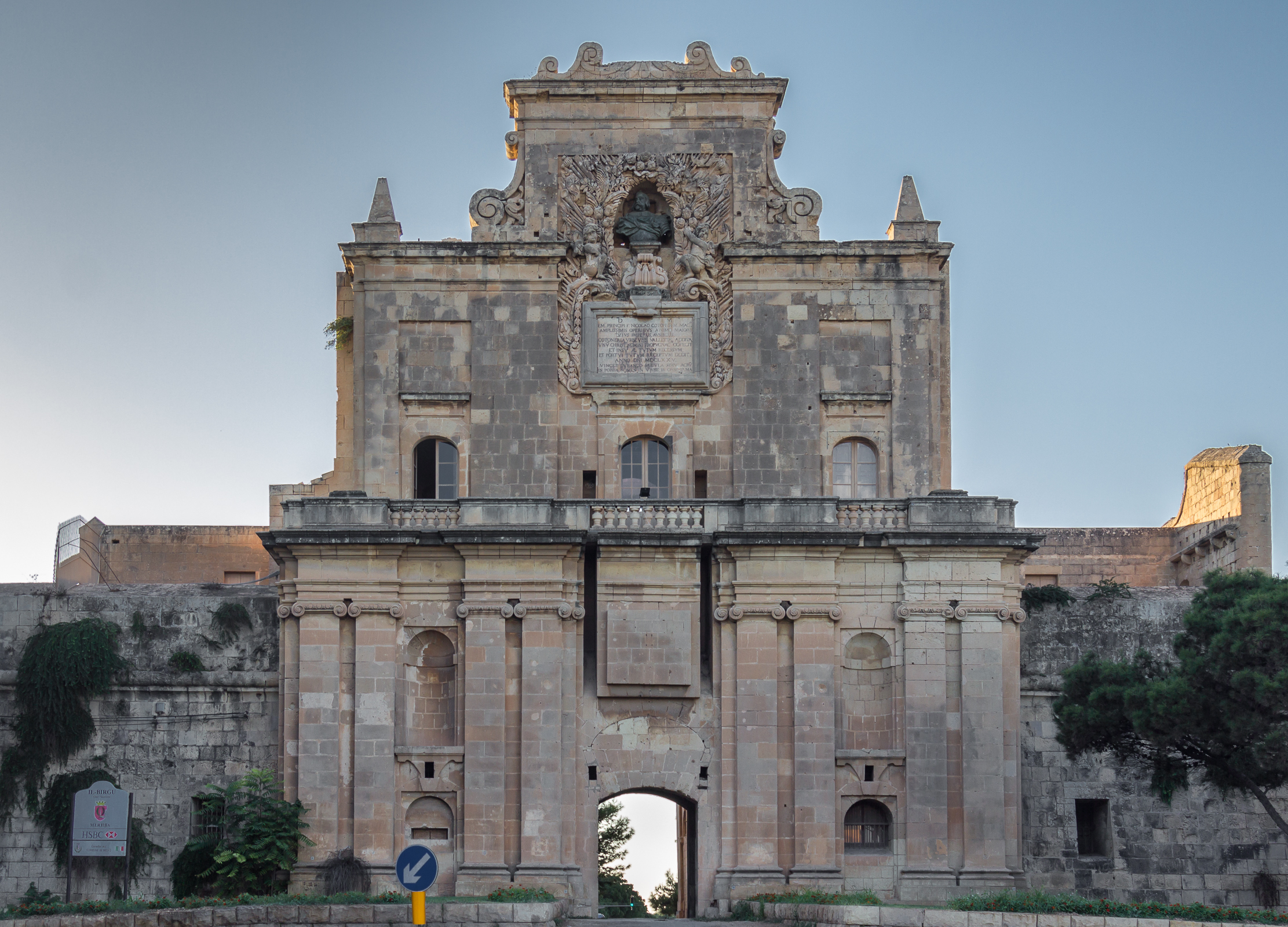 This media is about Maltese cultural property with inventory number 01557.